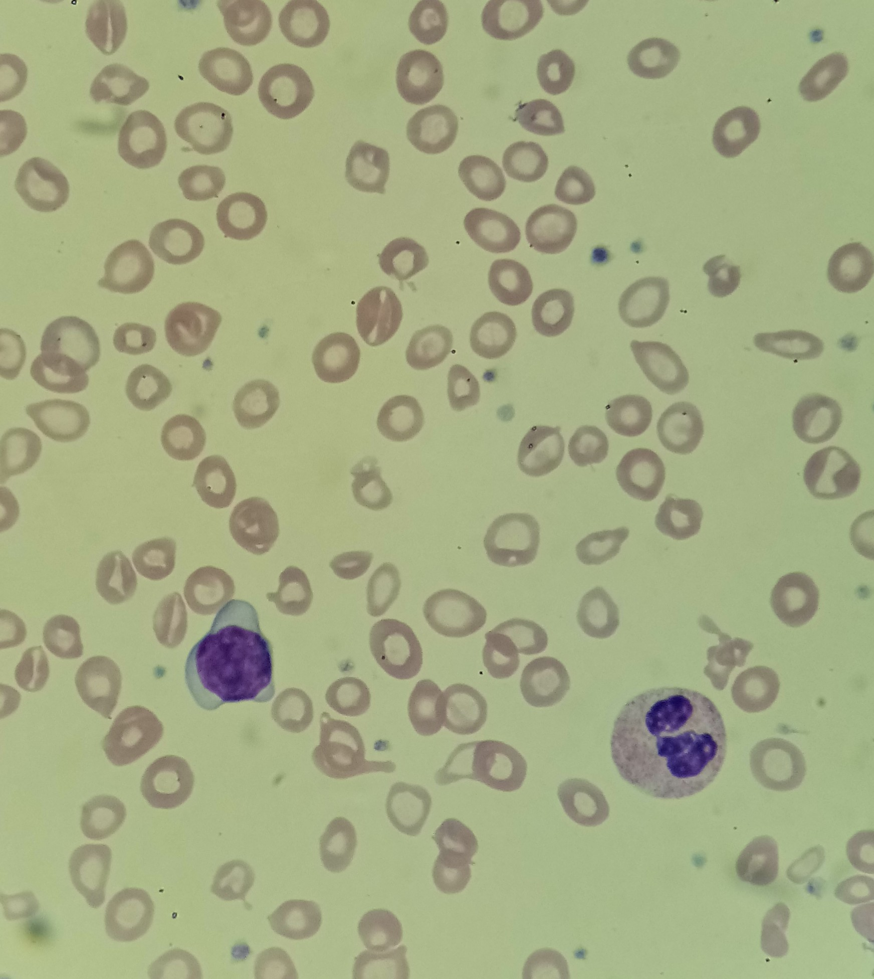 A severe case of iron deficiency anemia, showing marked microcytosis, hypochromasia, anisocytosis and poikilocytosis